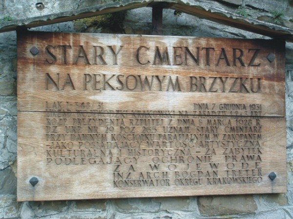 Plaque at Pęksowy Brzyzek National Cemetery in Zakopane, photo by Jadwiga